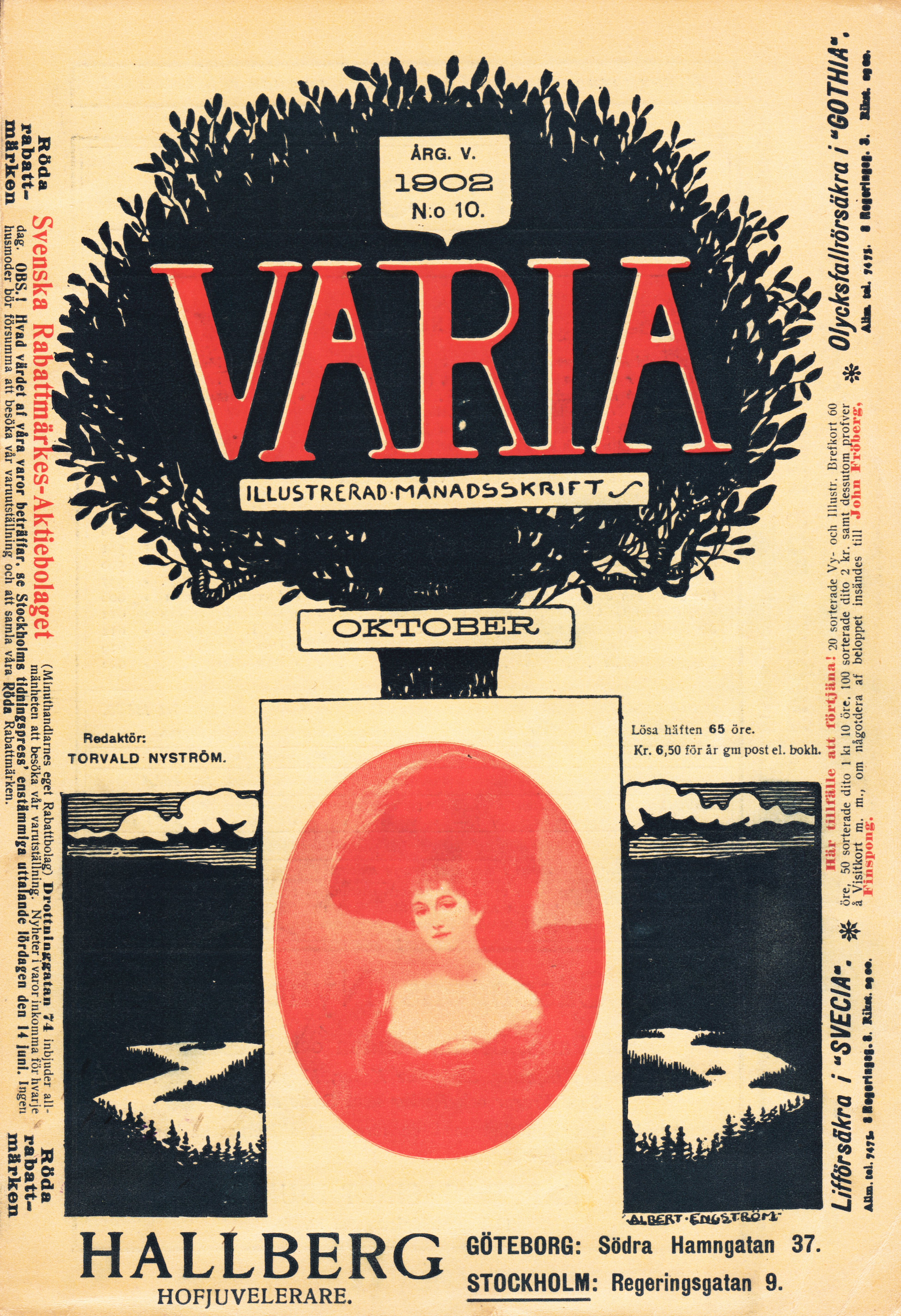 Cover of Swedish magazine Varia. Illustrerad månadsskrift (1898-1908)